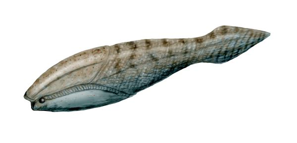 Arandaspis